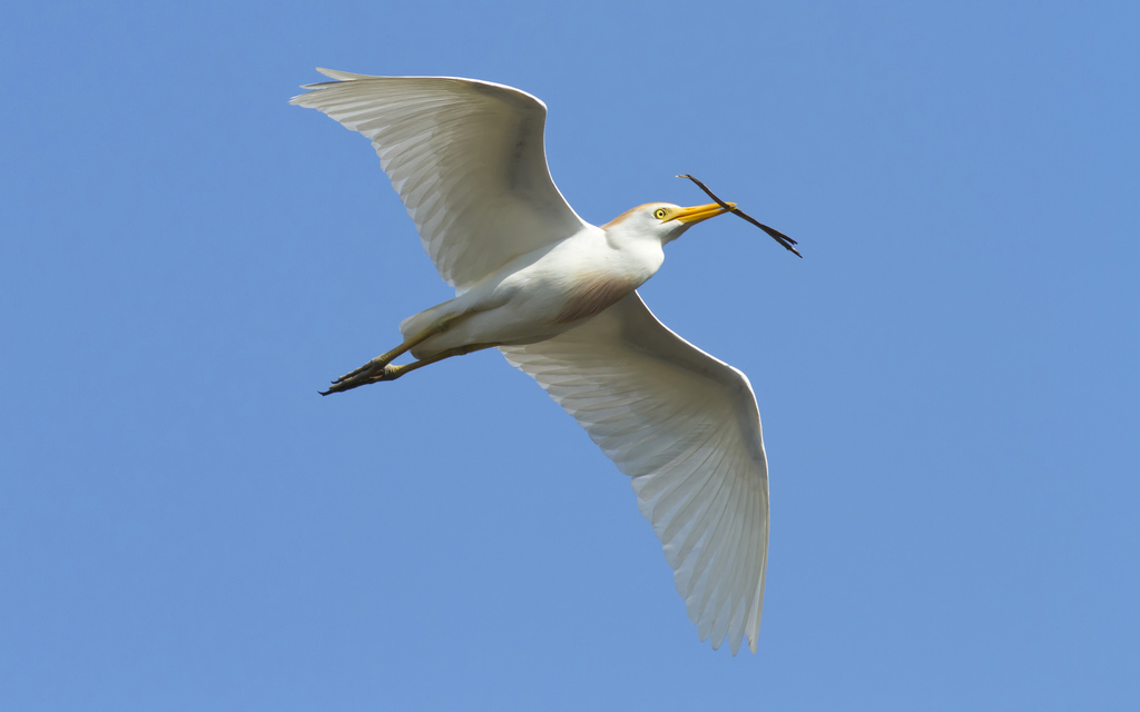 A Cattle Egret flying in Dallas, Texas, USA. It is carrying a twig in its beak for its nest.